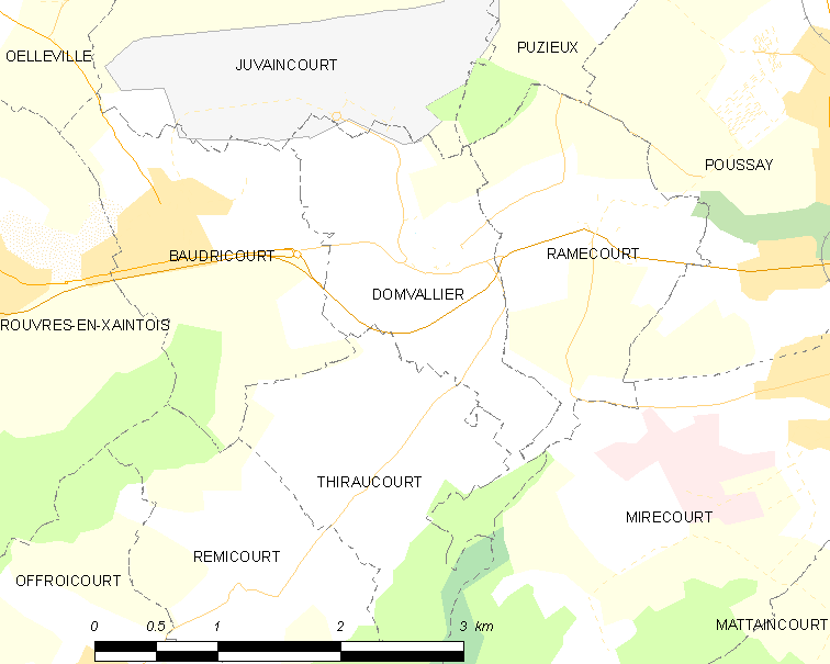 Map of French municipality Domvallier